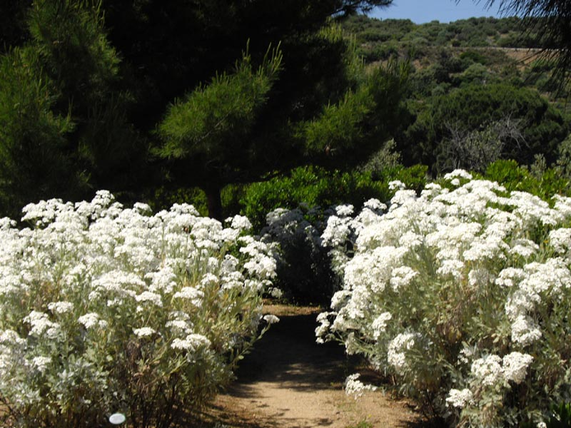 Tanacetum ptarmiciflorum 'Silver Feather'